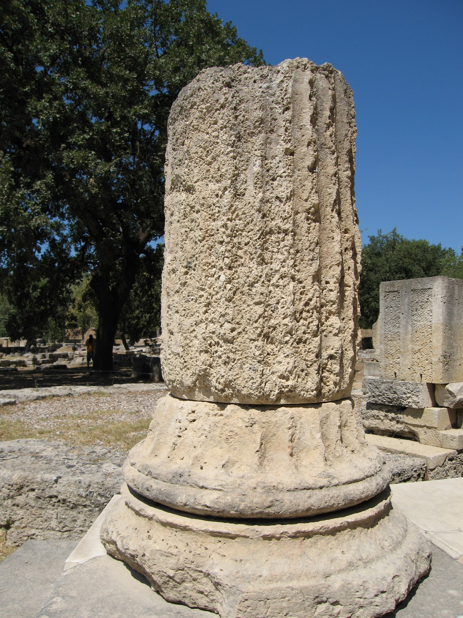 Olympia, Greece